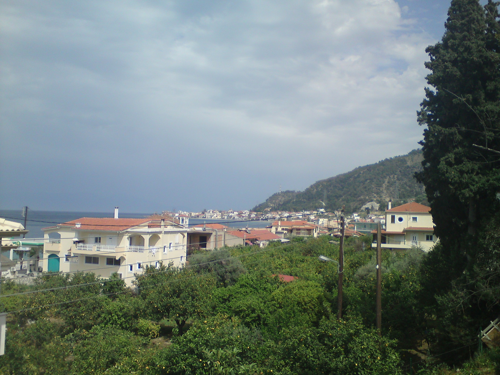 View of Derveni village in Korinthia prefecture, Greece